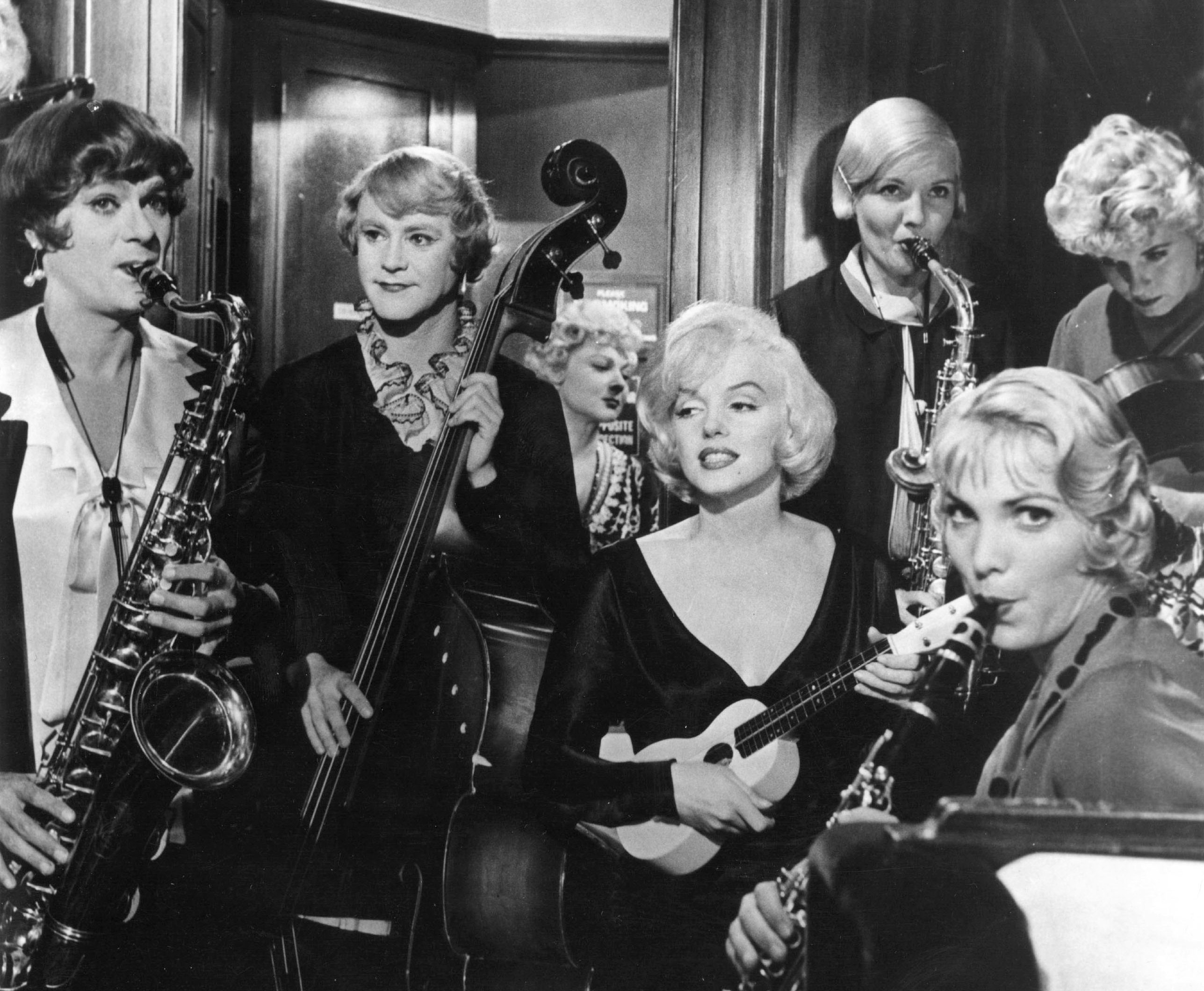 Cropped screenshot of Tony Curtis, Jack Lemmon and Marilyn Monroe from the trailer for the film Some Like It Hot